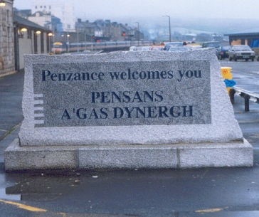 Penzance. A welcoming message near the Railway Station - with my train for Bristol in the background.